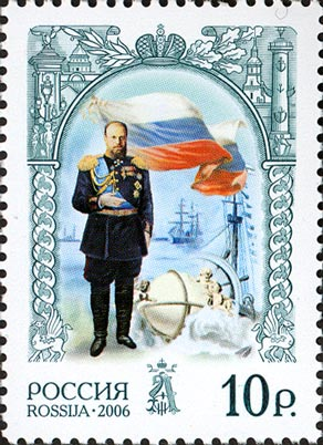 Stamp of Russia, Alexander III of Russia, CPA #1111.